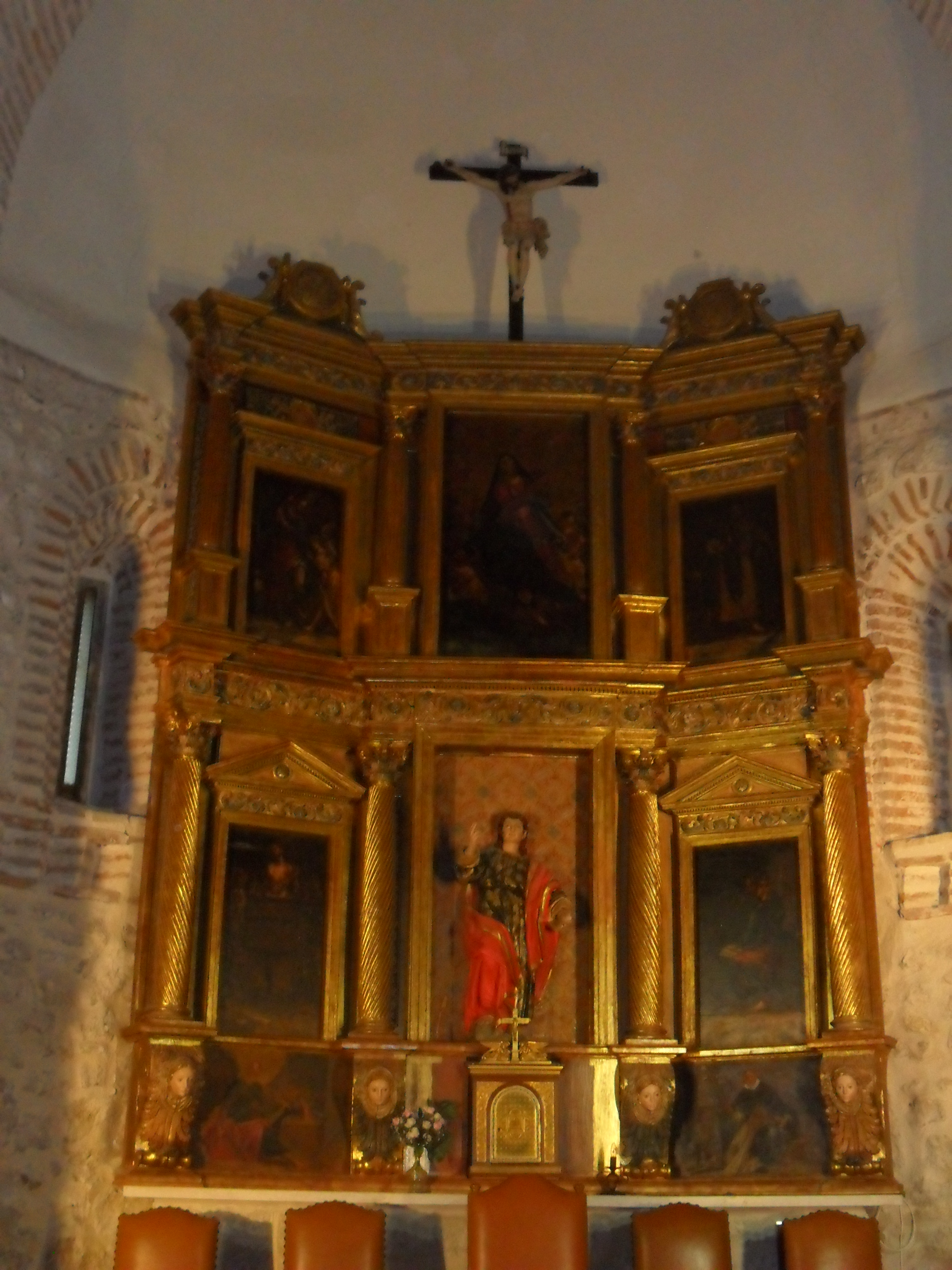 Renaissance Altarpiece (XVI). Santibáñez de Valcorba, Valladolid.Spain